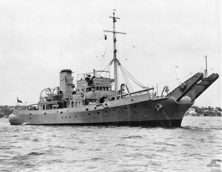 Starboard bow view of the newly built boom working vessel, HMAS Karangi, just prior to commissioning.